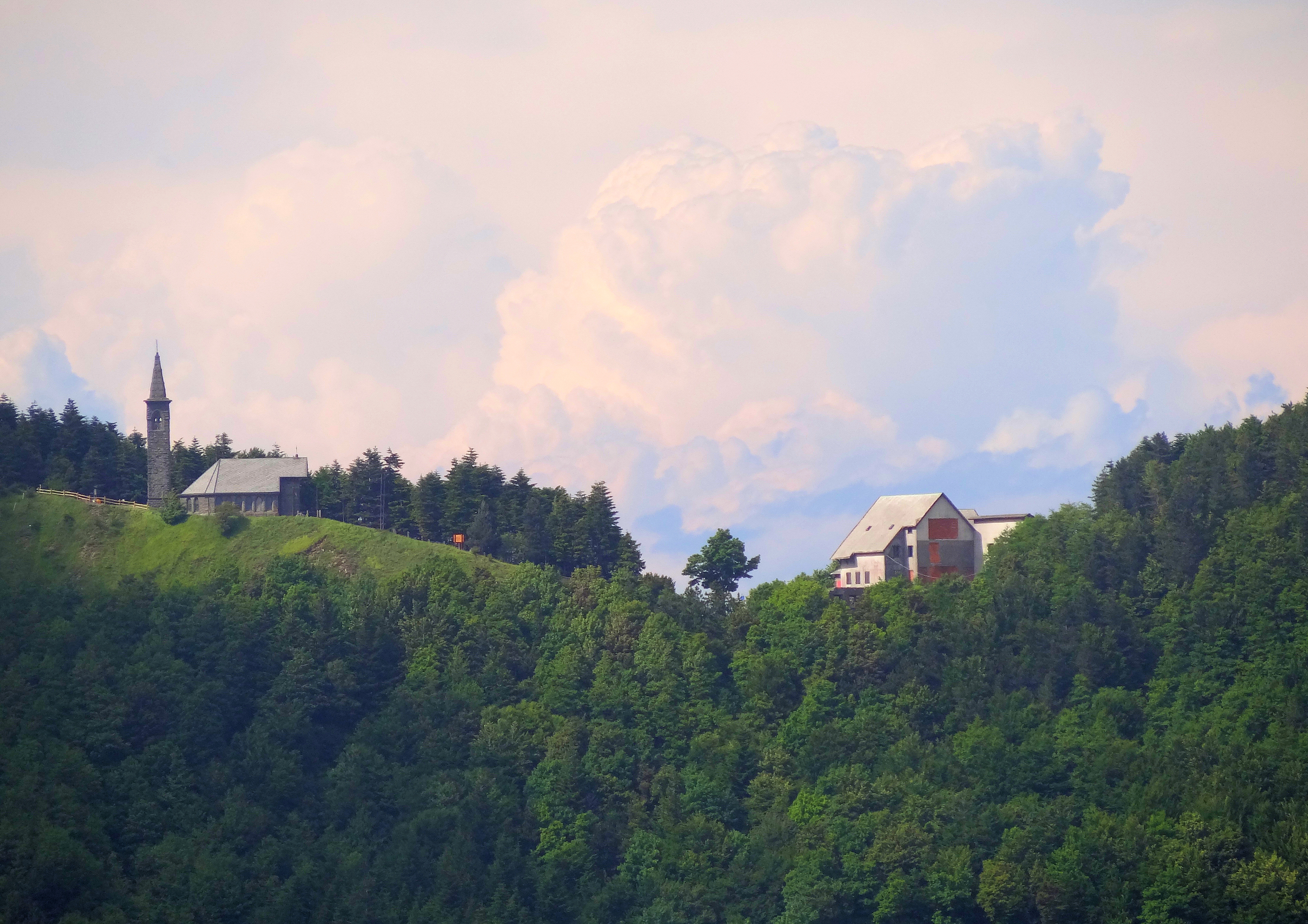 The church and the main building below it located at the highest point of the road crossing the Cisa Pass between Tuscany and Emilia-Romagna. The photography is taken from the Via Francigena pilgrim route on the south side of the pass.